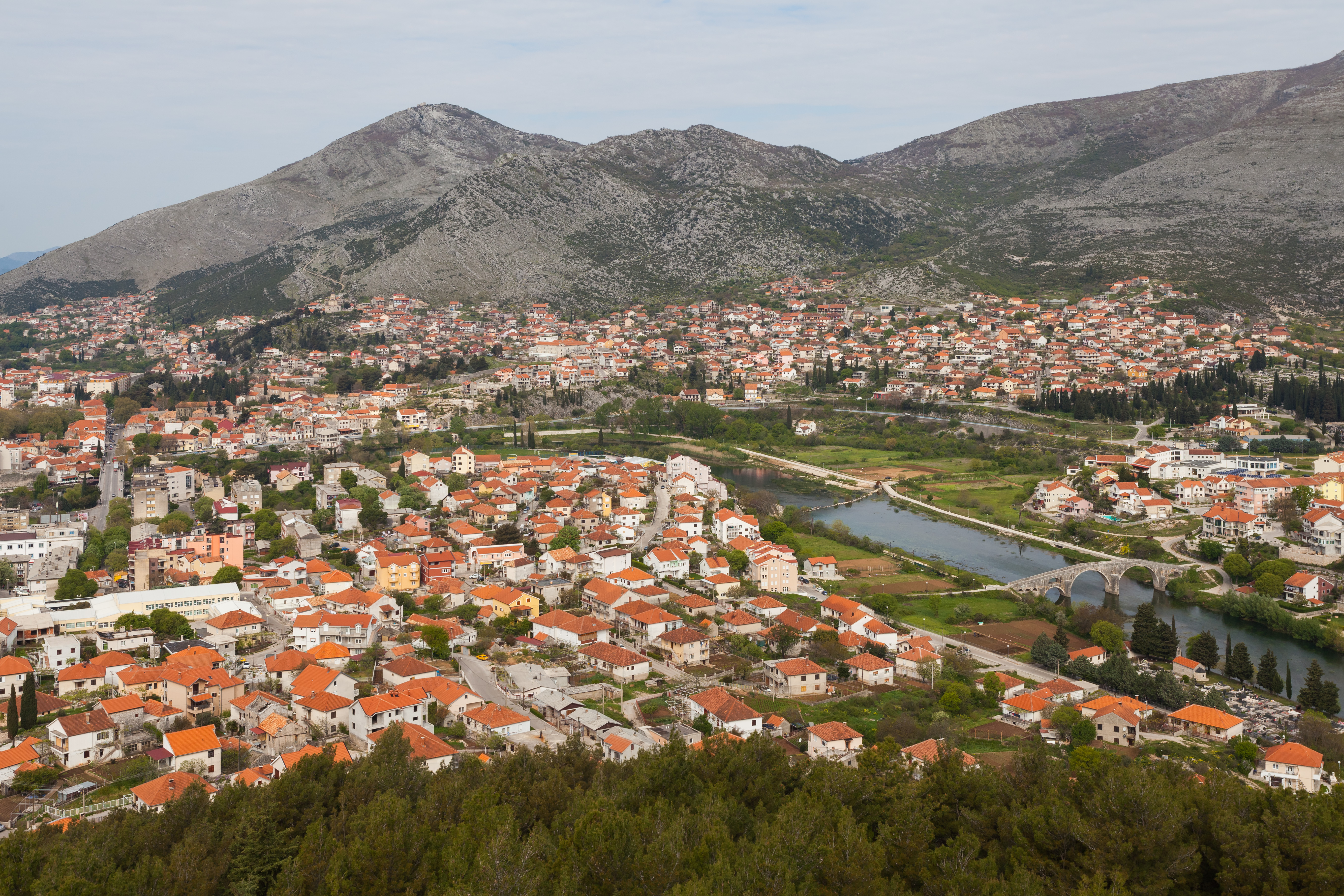 Trebinje, Bosnia and Herzegovina